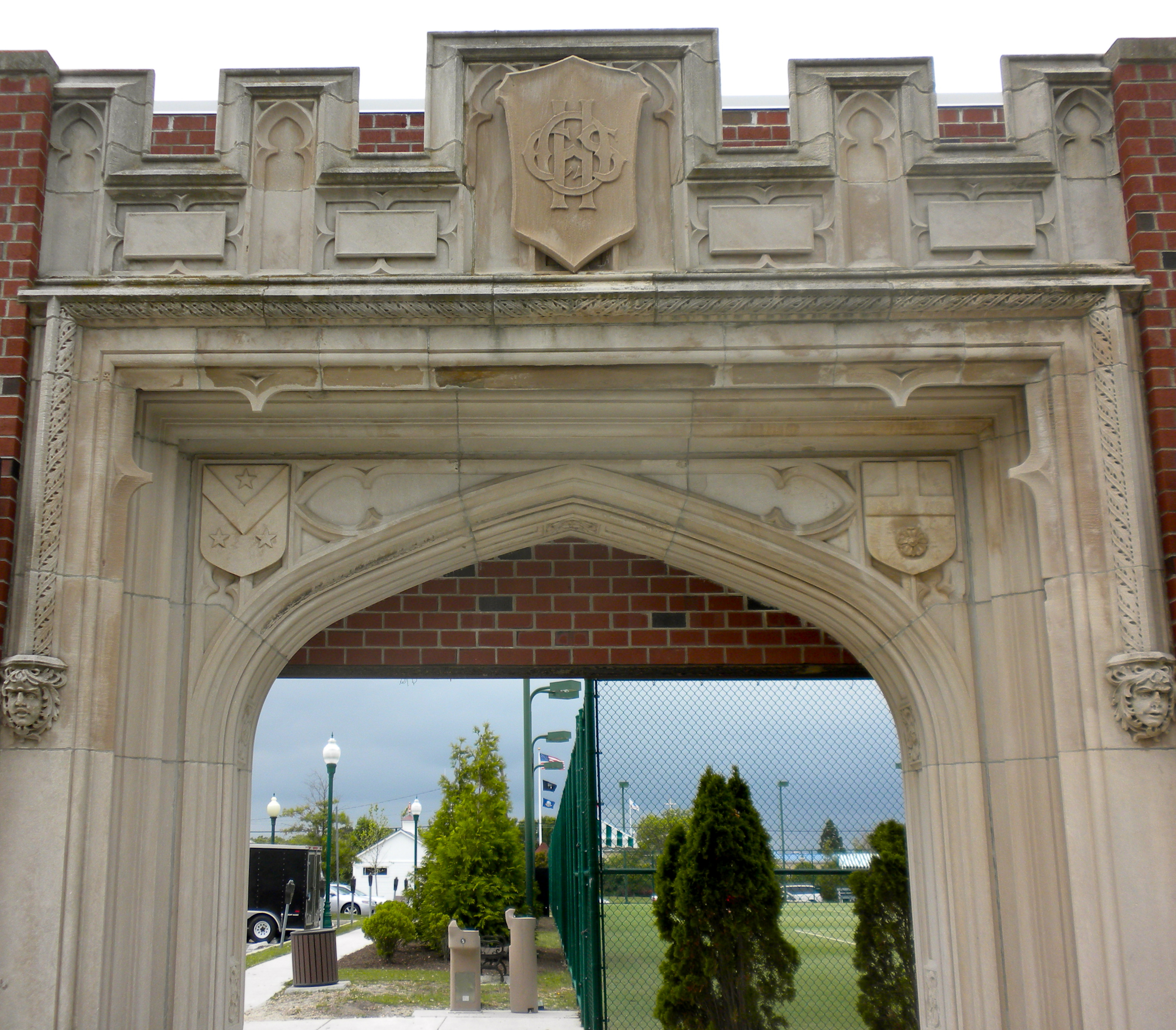 Entrance to the old Ocean City High School, now torn down. The new High School is across the street (Atlantic Avenue - between 5th and 6th) Tennis coursts, visible through the arch, were built in place of the old school.